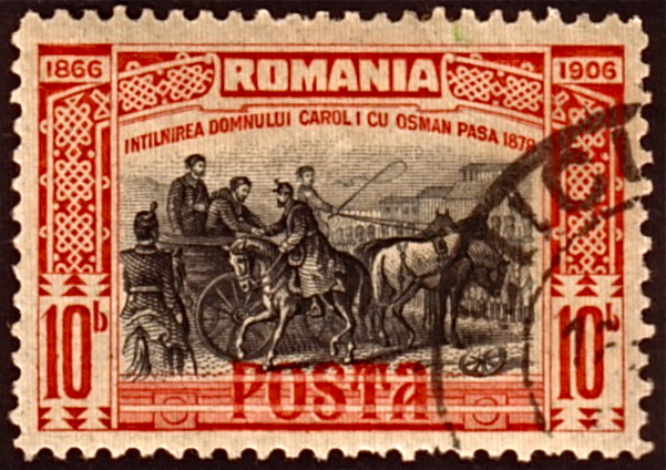 Romanian stamp, face value 10 bani, issued 1906, part of a series to mark 40 years of the rule of Carol I as prince and later king. Vignette shows Carol I greeting the opposing captured opposing commander, Osman Pasha, who was injured and captured at the Siege of Pleven